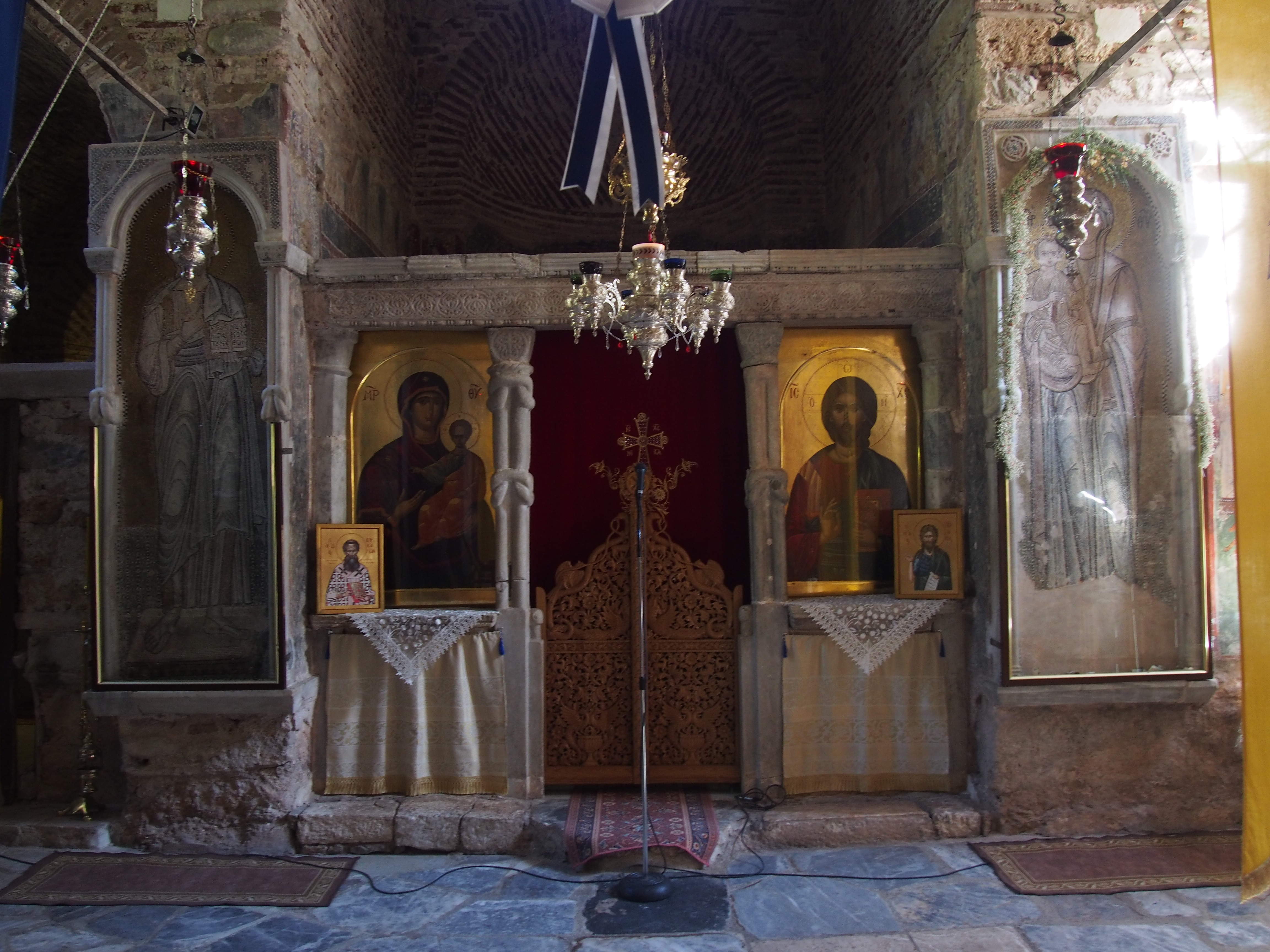 The church of Porta-Panagia. The marble iconostasis features two rare mosaics, with the mosaic of Jesus to the left and Mary to the right.